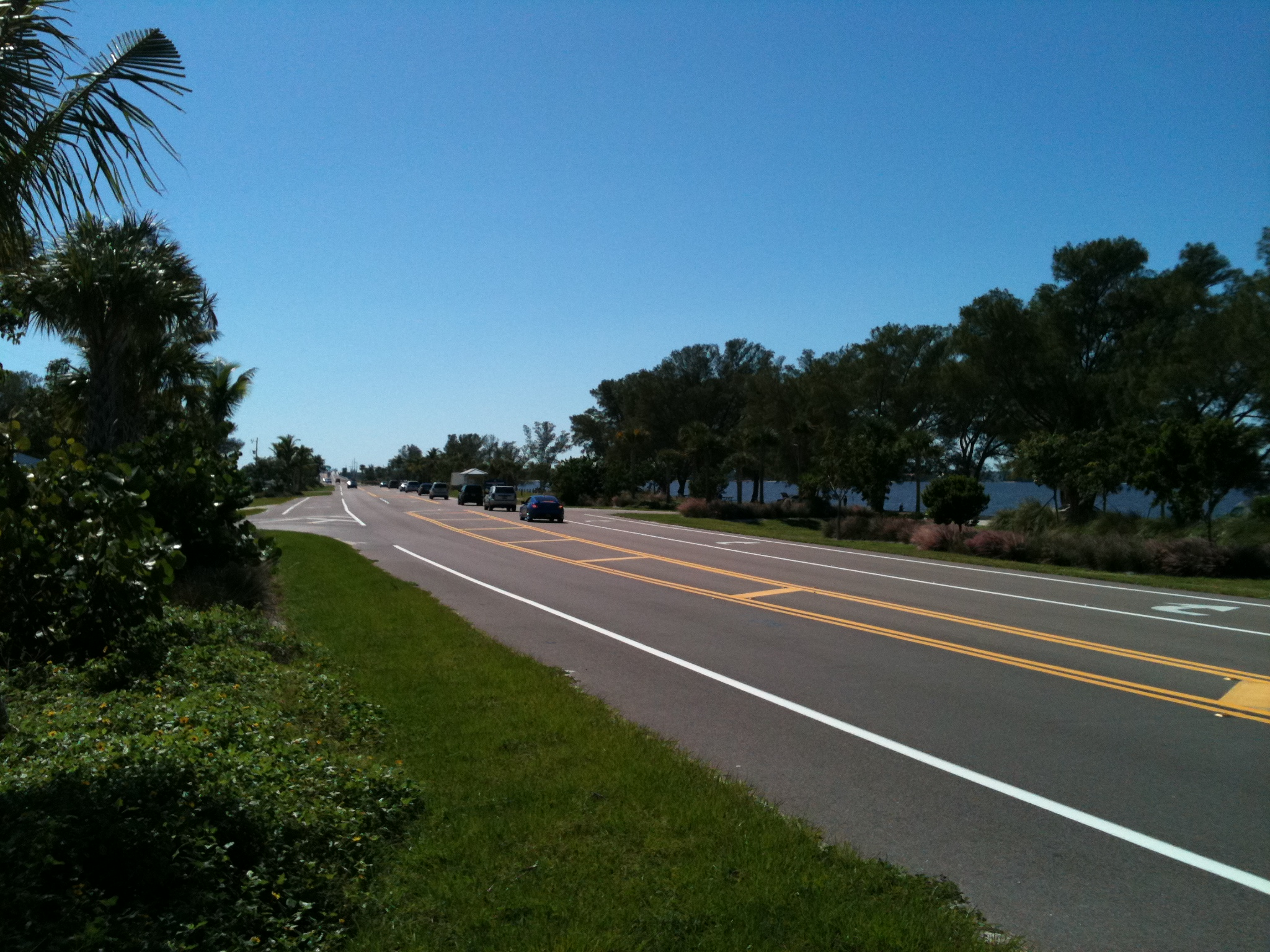 Island B of the Sanibel Causeway